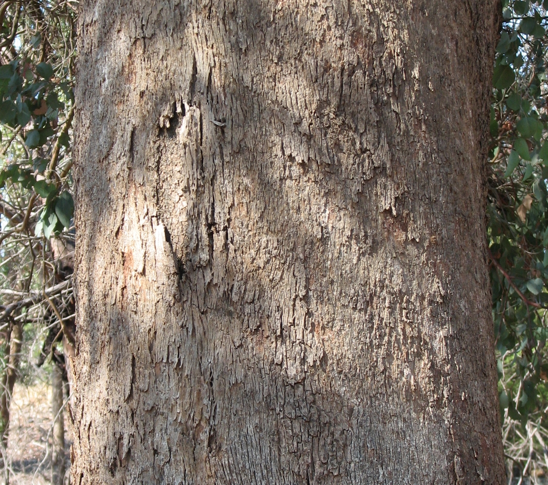 Bark of Eucalyptus polyanthemos subsp. vestita, St Andrews, Victoria, Australia